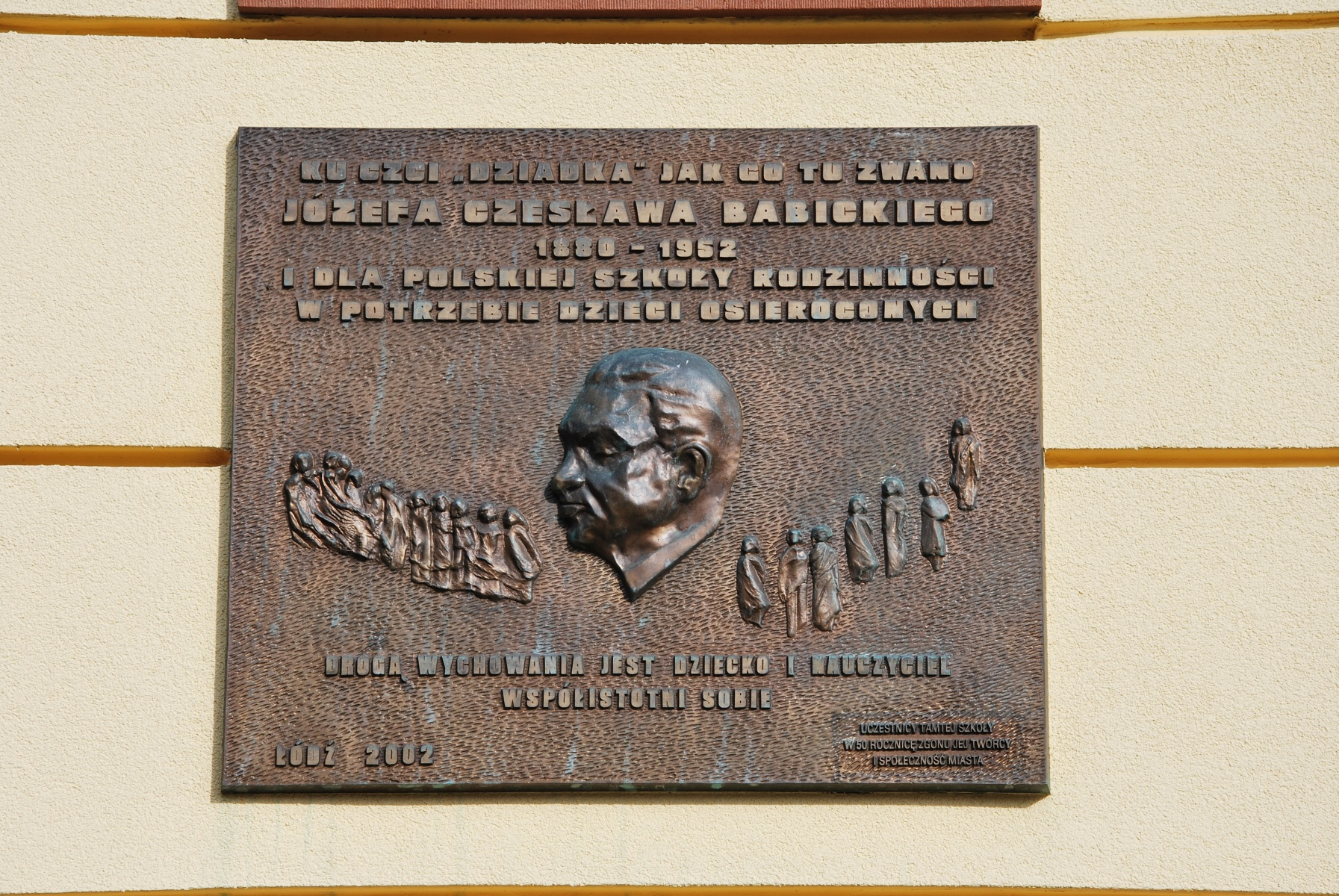 Plaque of Józef Babicki (1880-1952), polish educator, in Łódź